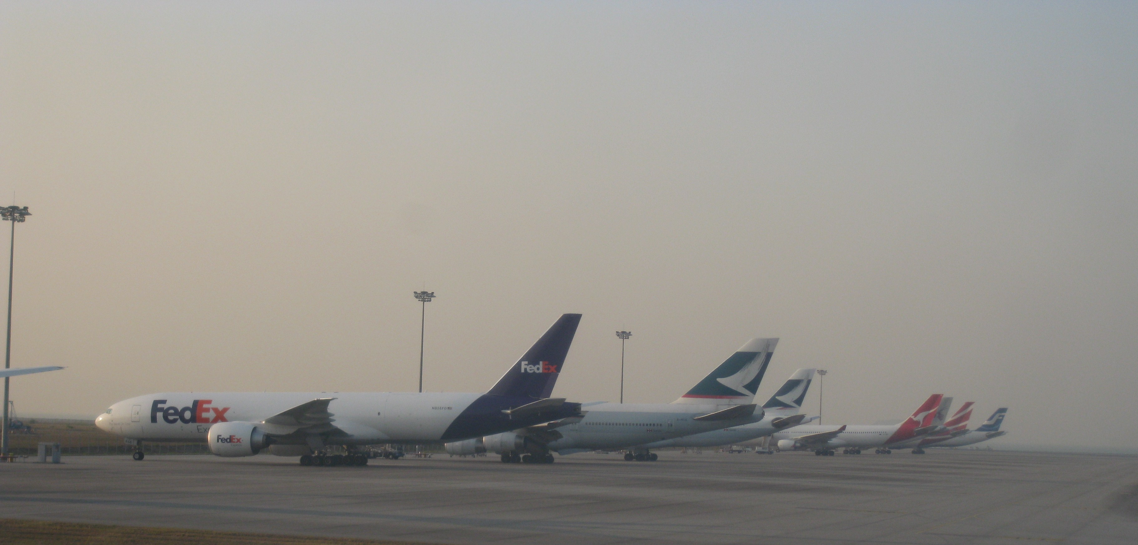 Hong Kong International Airport